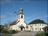 main place of the village